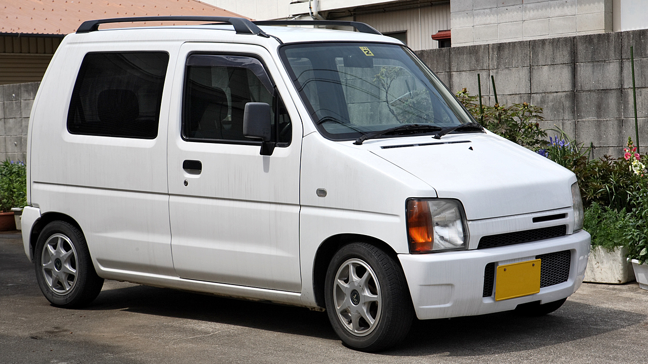 First generation Suzuki Wagon R four door RX